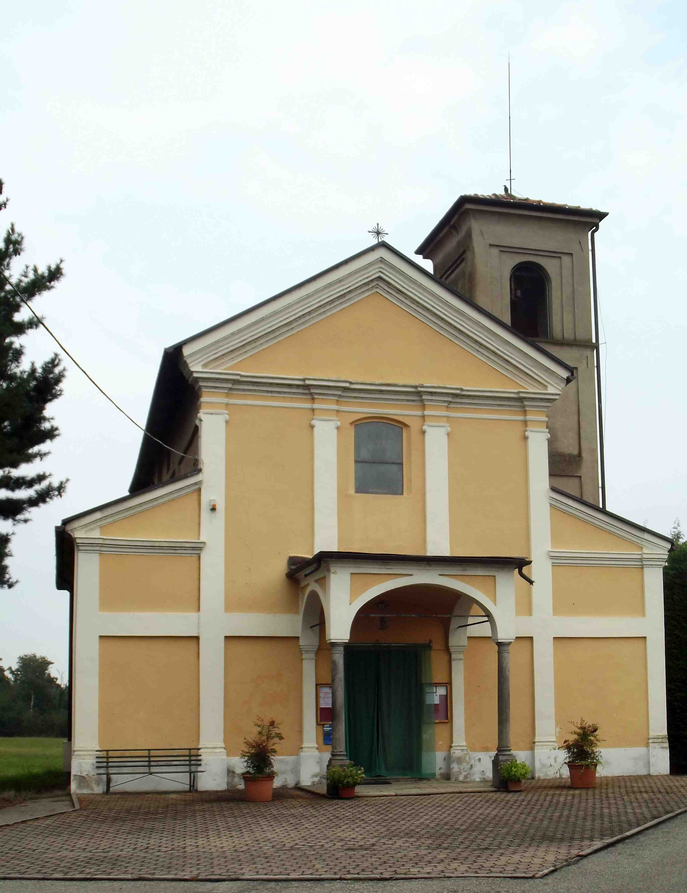 Villanova Biellese (BI, Italy): San Barnaba parish church